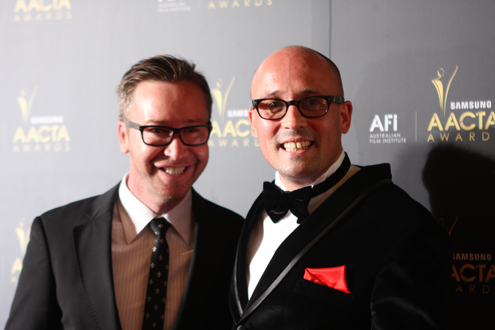 The 1st AACTA Awards were presented at the Sydney Opera House on 31 January 2012. The ceremony was preceded by a luncheon at the Westin Hotel in Sydney on 15 January 2012.